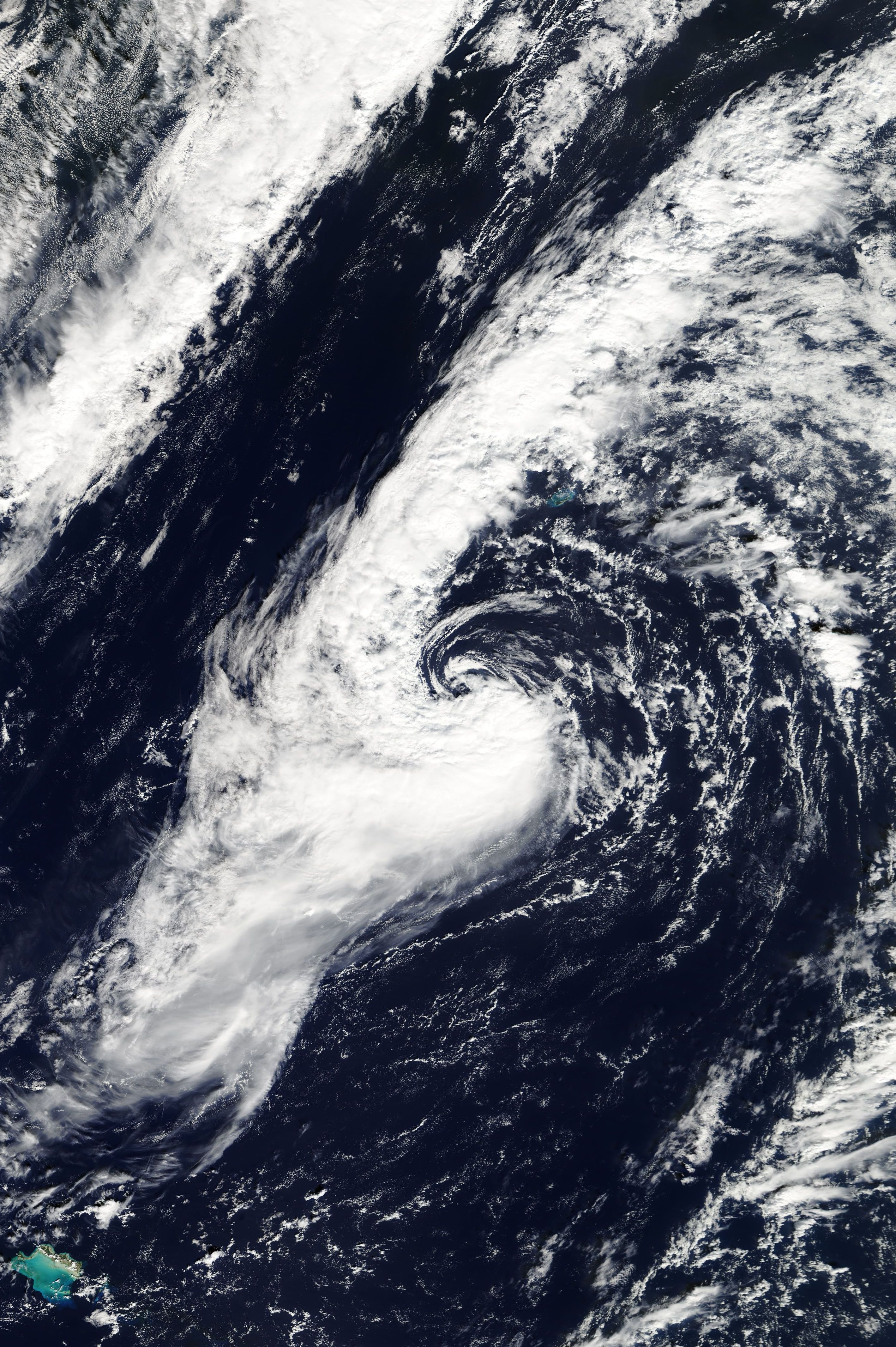 Tropical Storm Shary.